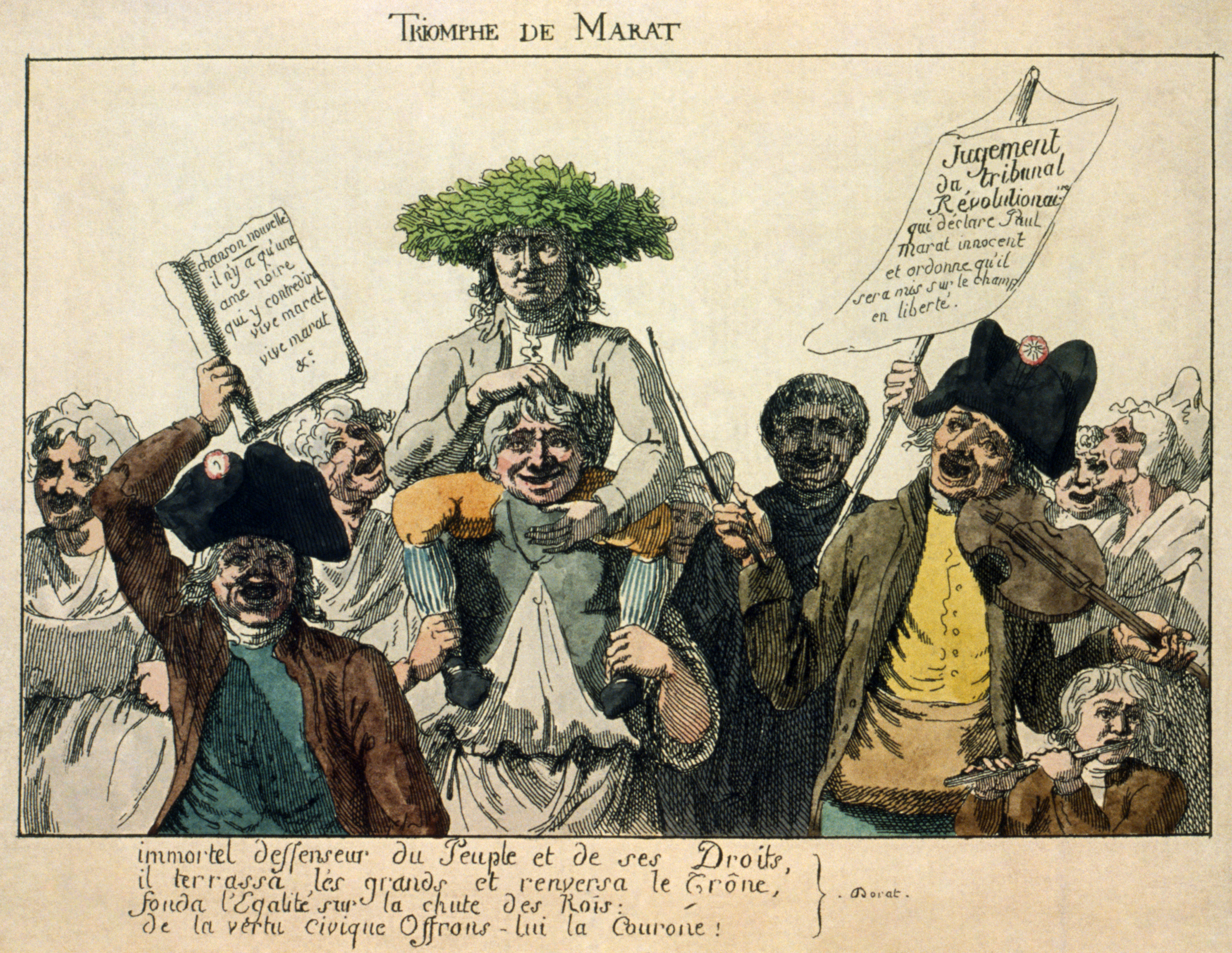 Jean-Paul Marat with crown of laurel leaves carried on shoulders of man around whom others are crowded; celebrating his acquittal by Revolutionary Tribunal. Etching with watercolor. Translation: Top: Marat's triumph Left: new song: there is only one/ black heart/ to be contradicted/ Marat lives/ Marat lives/ Etc. Right: Judgment of the revolutionary tribunal: it declares Paul Marat innocent and orders him to be freed immediately. Bottom: immortal defender of the people and their rights, he overthrew the nobles and the monarchy, founded equality upon the king’s fall out of Civic Virtue—let us offer him laurels.